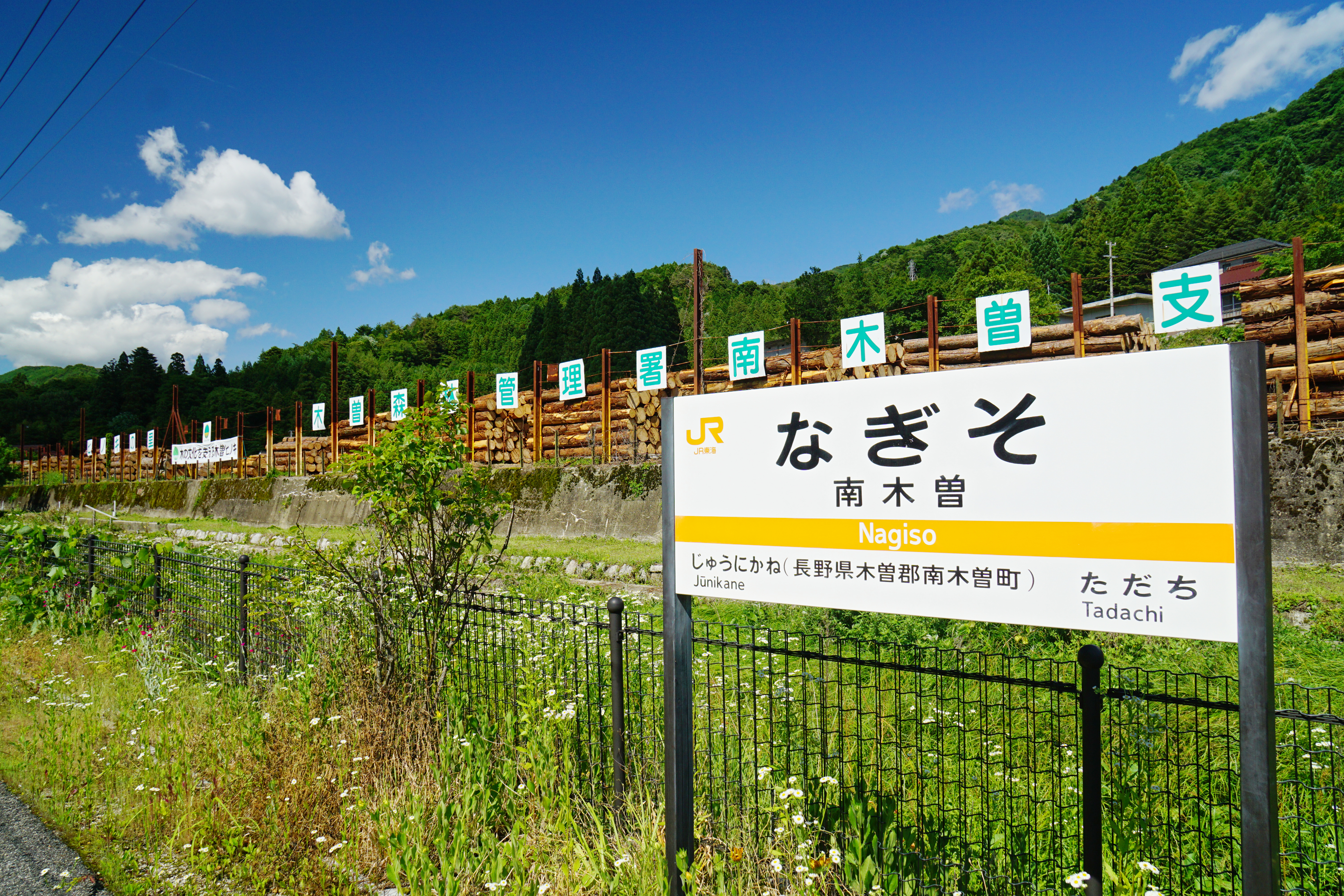 Nagiso Station on the Chuo Main Line in Nagiso, Nagano, Japan